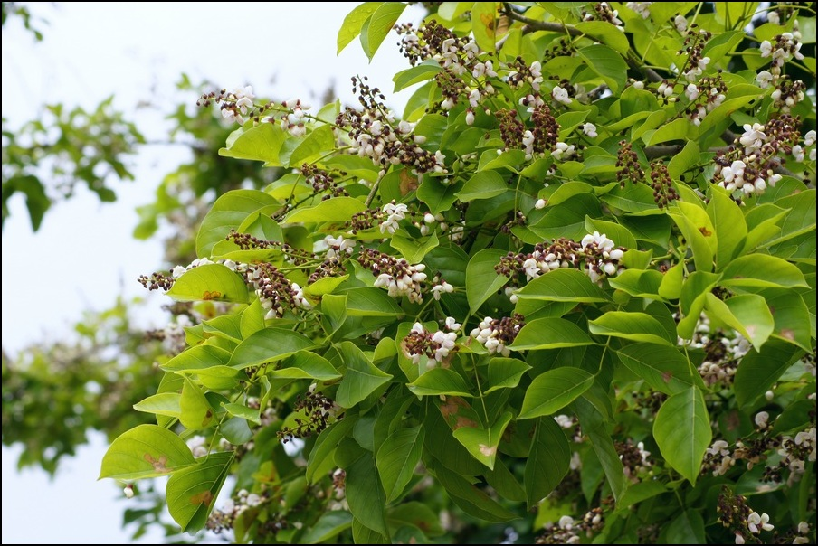 Millettia pinnata Synonyms: Pongamia pinnata, Pongamia glabra, Derris indica, Galedupa pinnata Common names: Pongam Tree, Indian Beech Tree, Honge Tree, Panigrahi, karanja It is native to humid and sub-tropic environments (Asia, West Africa, Australasia...), it is thought to have originated in India. Pea flowers in inflorescences and large light-green deltoid (heart shaped) leaves. Deciduous. In Australia normally (!) flowers November-December Its root, bark, leaves, sap, and flower also have medicinal properties and traditionally used as medicinal plants . Concentrated seeds extract can be found in various herbal preparations which are widely available in the market today. In India the seeds are collected to obtain Karanja or Honge oil. The non-edible oil is known for its medicinal properties. See all my photos of this tree